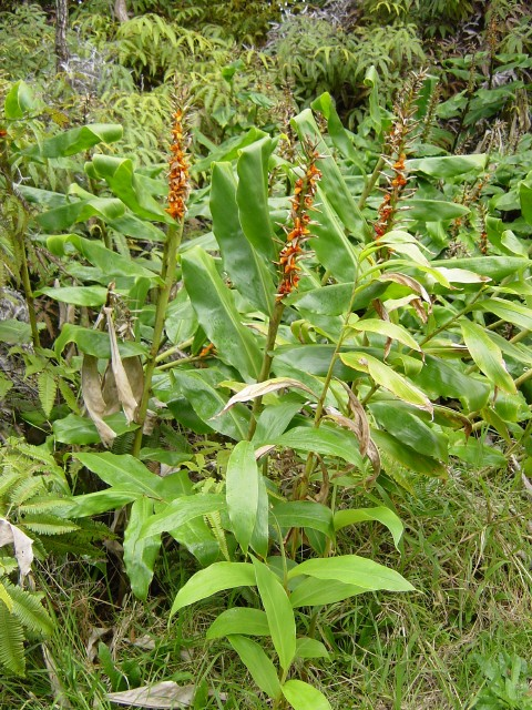 A Ginger Plant (Zingiber officinale). found on Hawaii big island.